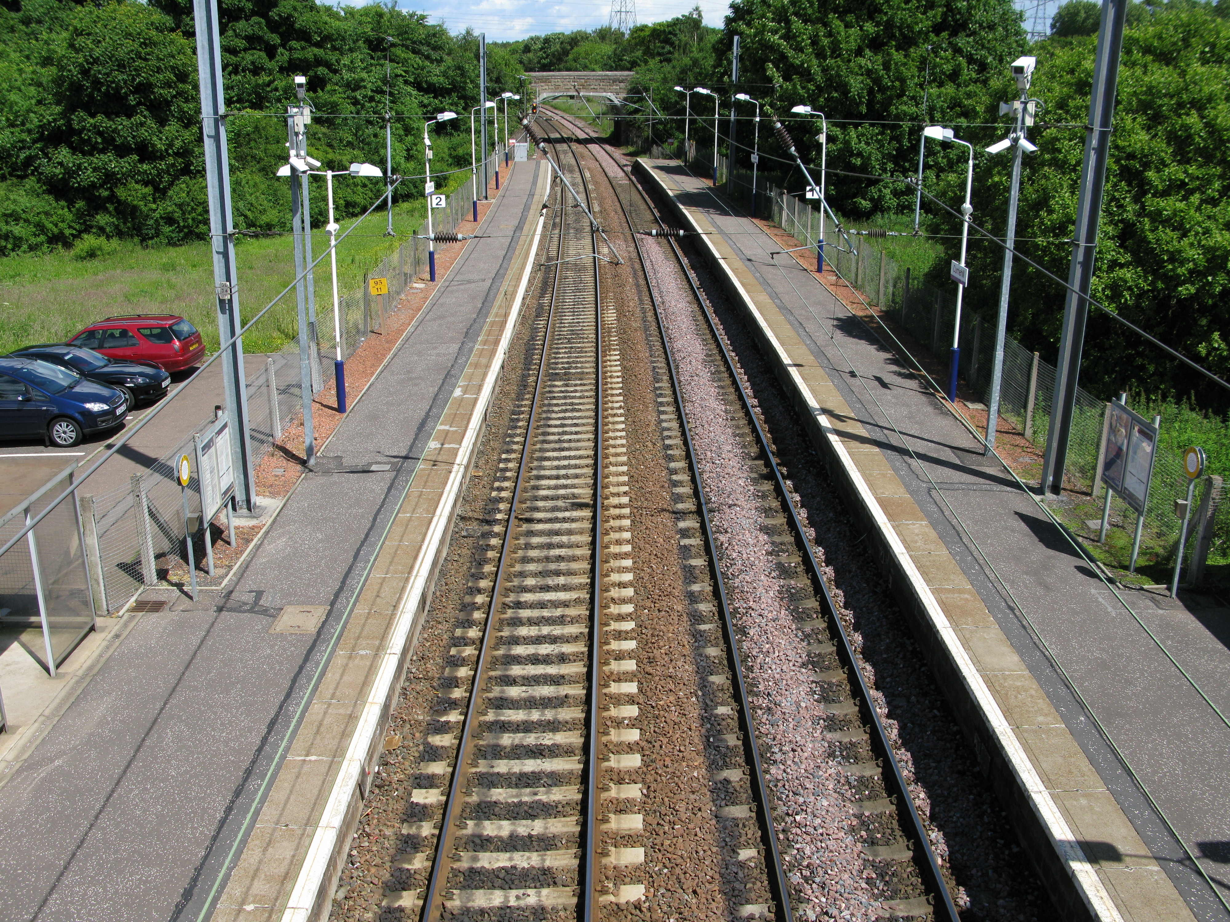 View from the footbridge at Curriehill railway station, looking towards Edinburgh.